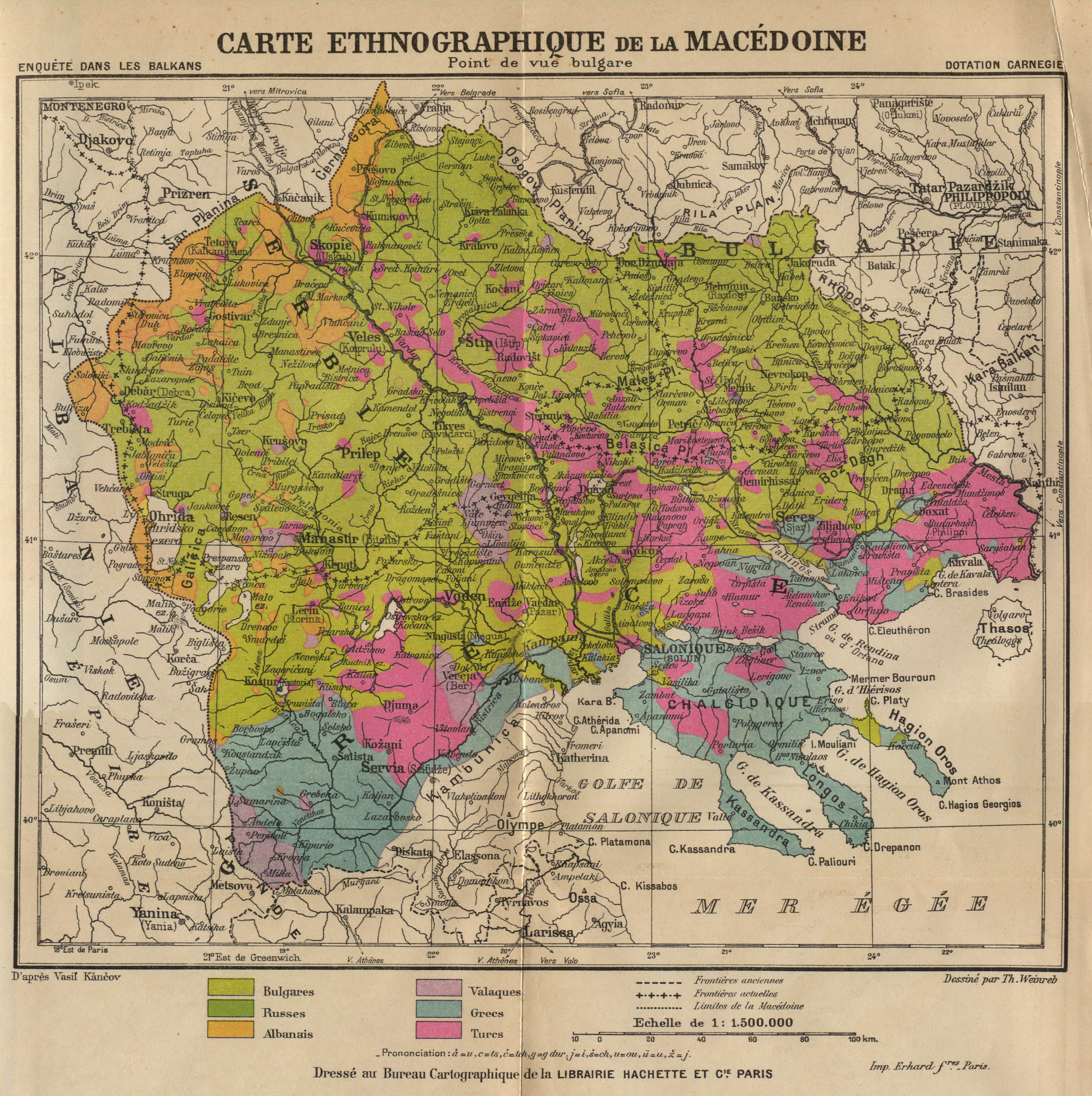 Ethnographic Map of Macedonia: Point of View of the Bulgarians